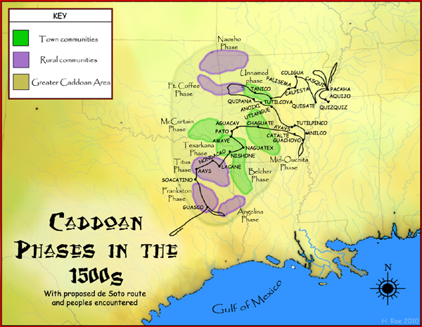 A map showing the geographical extent of the Caddoan Mississippian culture and some of its local phases in the early 1500s.